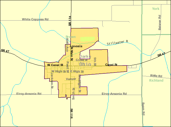 Map of Ansonia, a village in Darke County, Ohio, United States, with its boundaries at the time of the 2000 census.